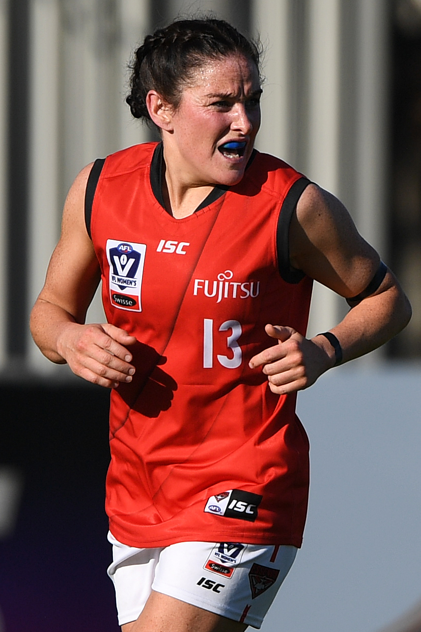 Shae Audley of Essendon during the 2019 VFLW Round 7 match between NT Thunder and Essendon at TIO Stadium on 22 June 2019 in Darwin, Australia.